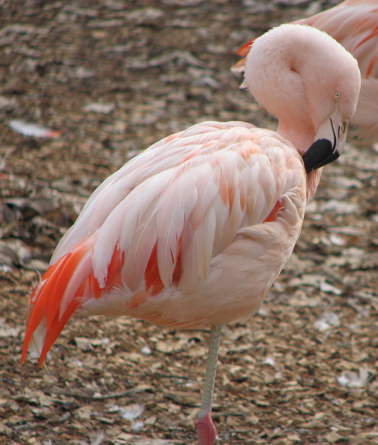 Phoenicopterus chilensis